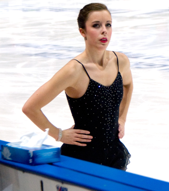 2010 Cup of Russia, short program.